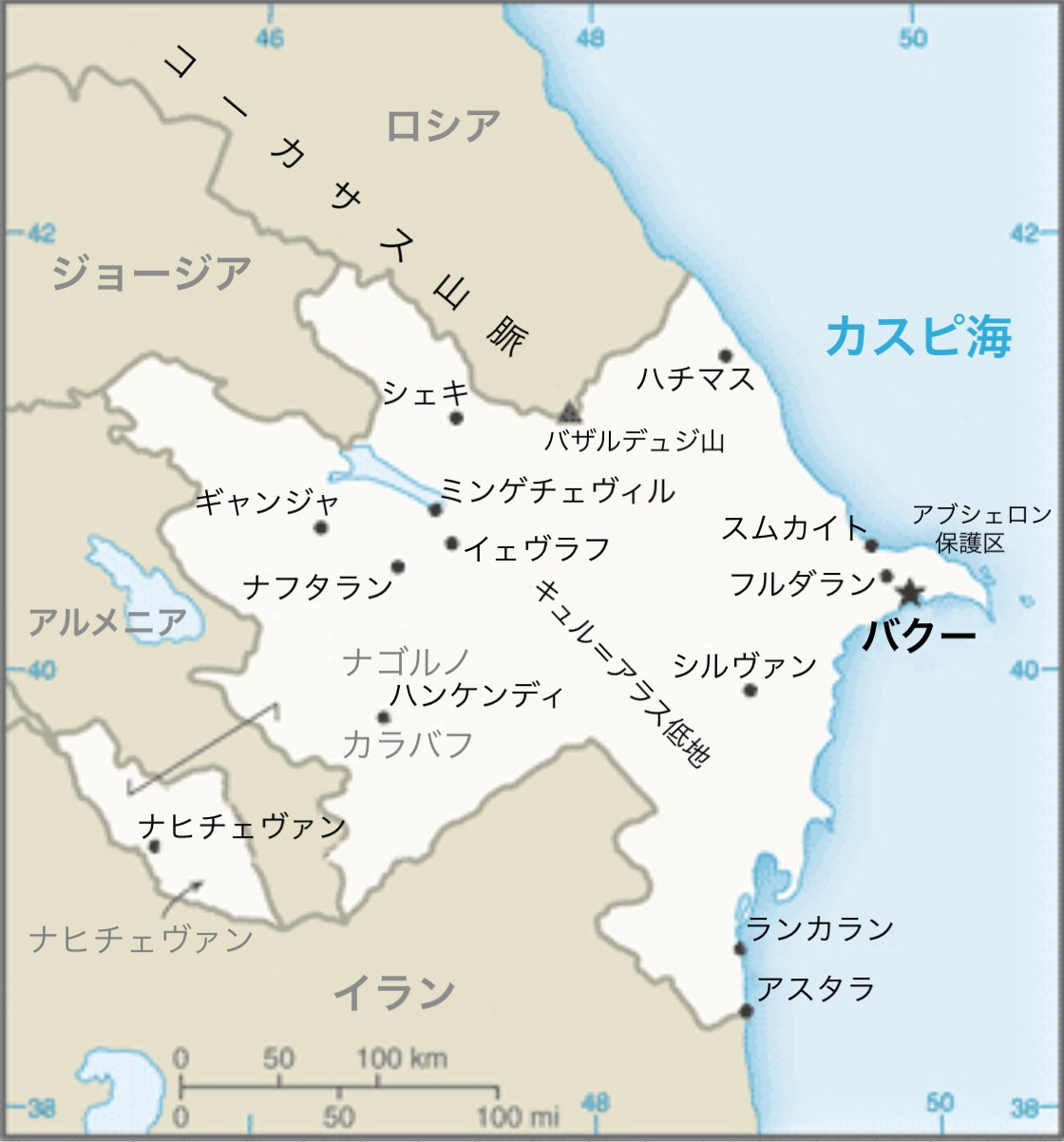 Map of Azerbaijan in Japanese (from CIA World Factbook)